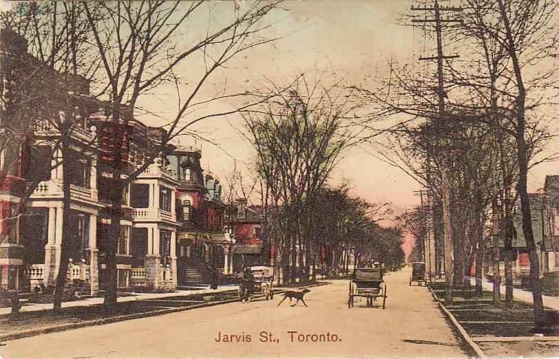 Jarvis Street, Toronto, Canada.